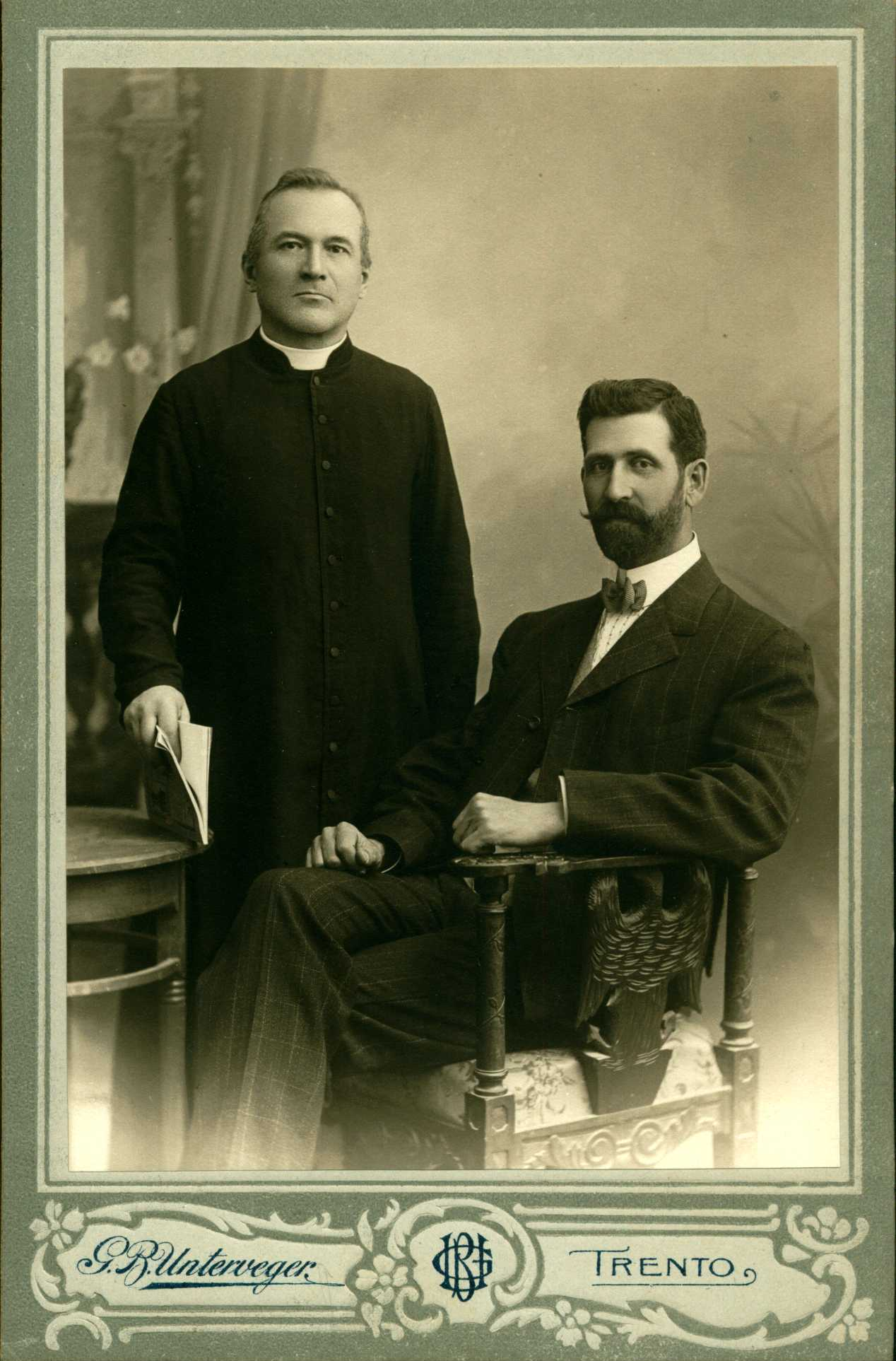 Portrait of William A. Murrill with Abbe Bresadola